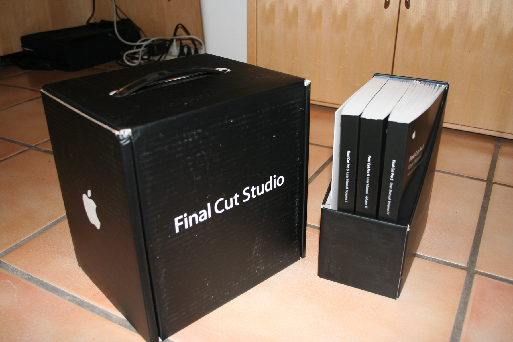 This box has been sitting here a while, patiently waiting to get installed. the cube is the entire Final Cut Studio, needed to do a stretch of video editing. The box sitting on the right is only half of the documentation. It's been a few years since I did FCP, and am hoping the rust shakes off.